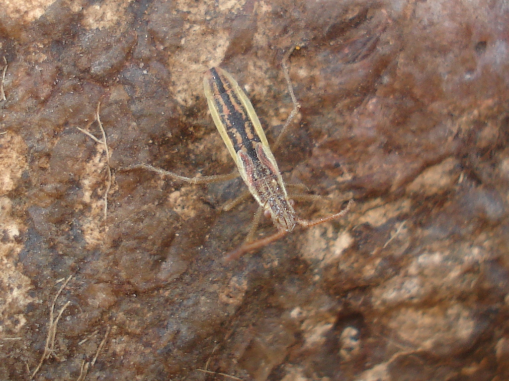 Myrmus miriformis